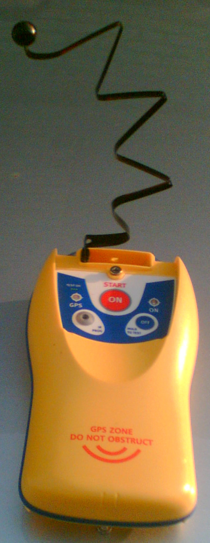 An emergency locator beacon. It is carried by personnel going into wilderness areas. If they become lost it transmits a radio signal which can be used to find them. The beacon includes a GPS receiver, so the transmitted signal includes its location in latitude and longitude. It transmits on Marine and Airband at 121.5 MHz, and satellite band at 406.0 MHz for reception by an emergency locator satellite.